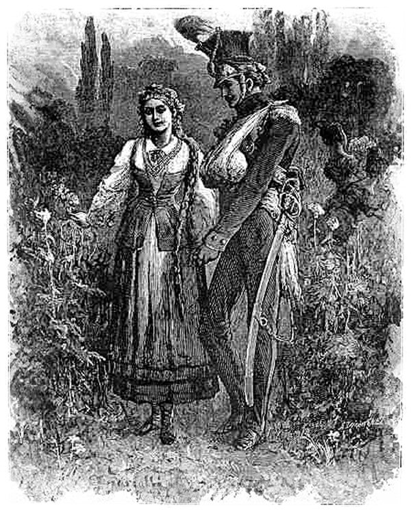 Illustration of Pan Tadeusz, Book 11